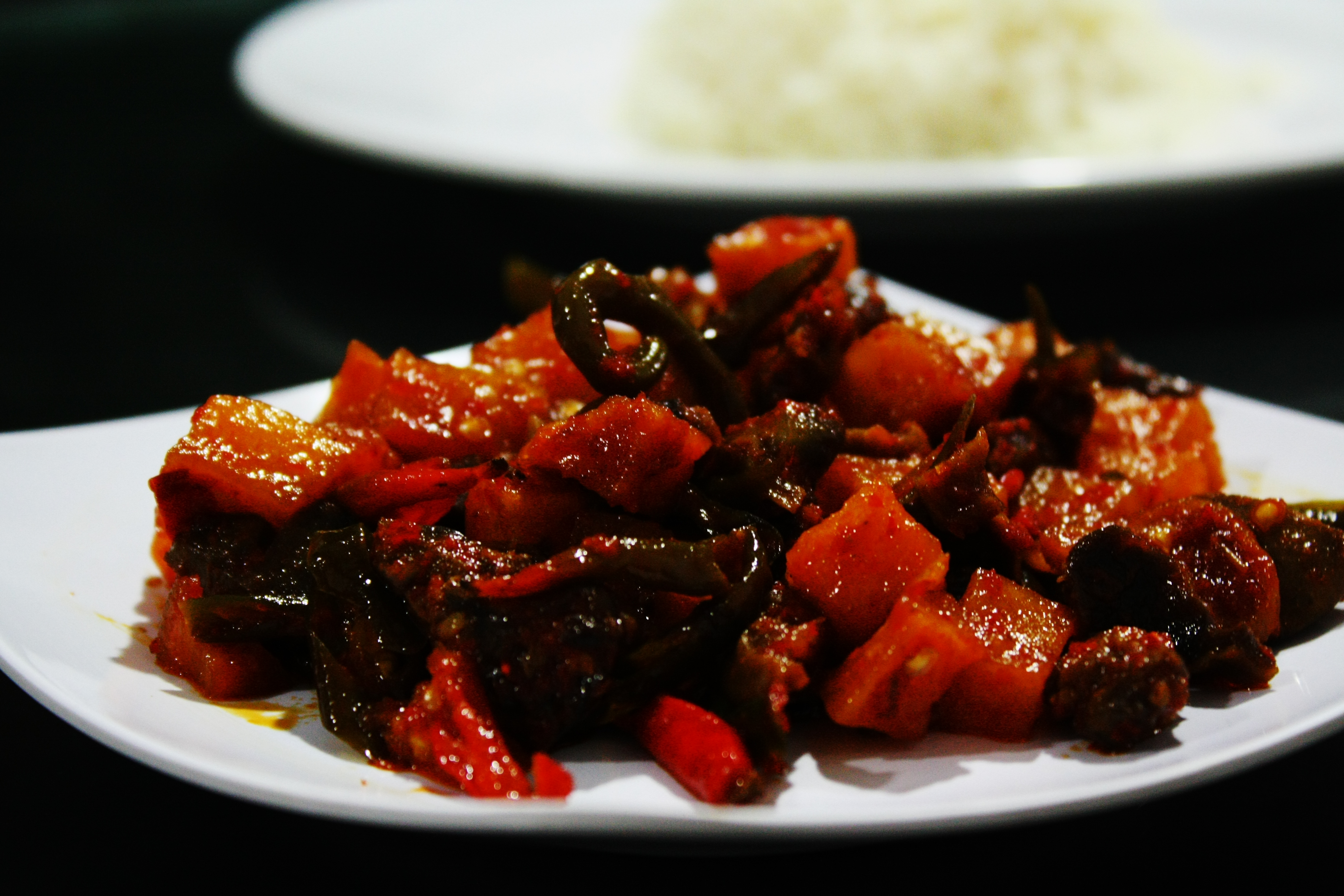 Sambal Goreng Hati (chicken liver sambal)